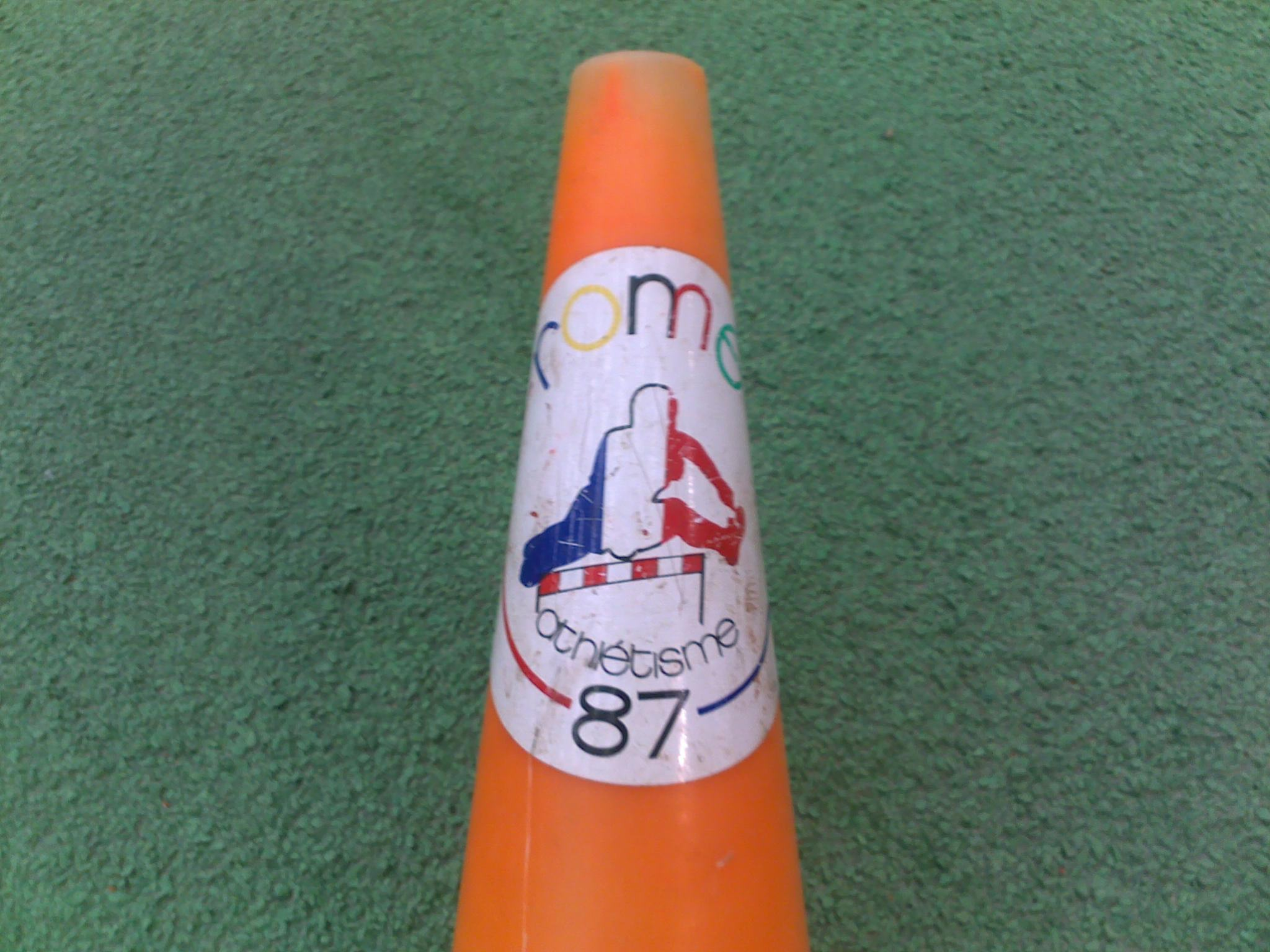 INSEP's block with a sticker of the 1987 World championships in athletics, in Roma.